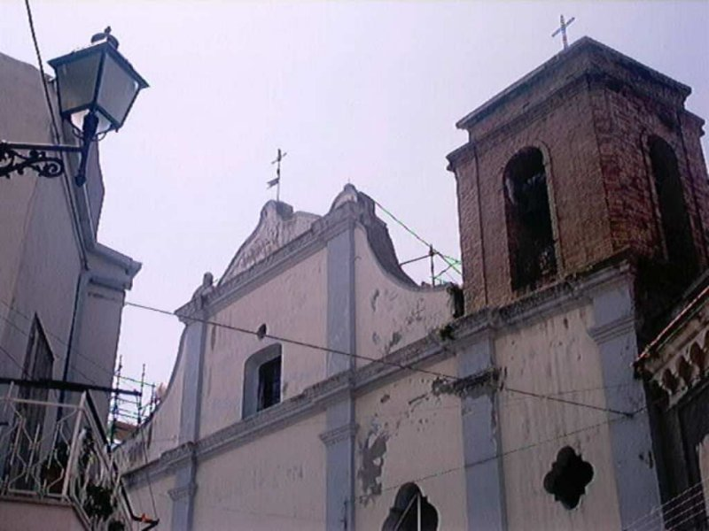 S. Joseph Church